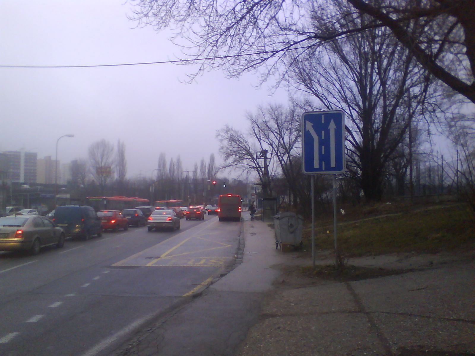 ŽST Lamač public transport bus stop in Lamač, Bratislava, Slovakia as viewed from behind the Bratislava - Lamač railway station.